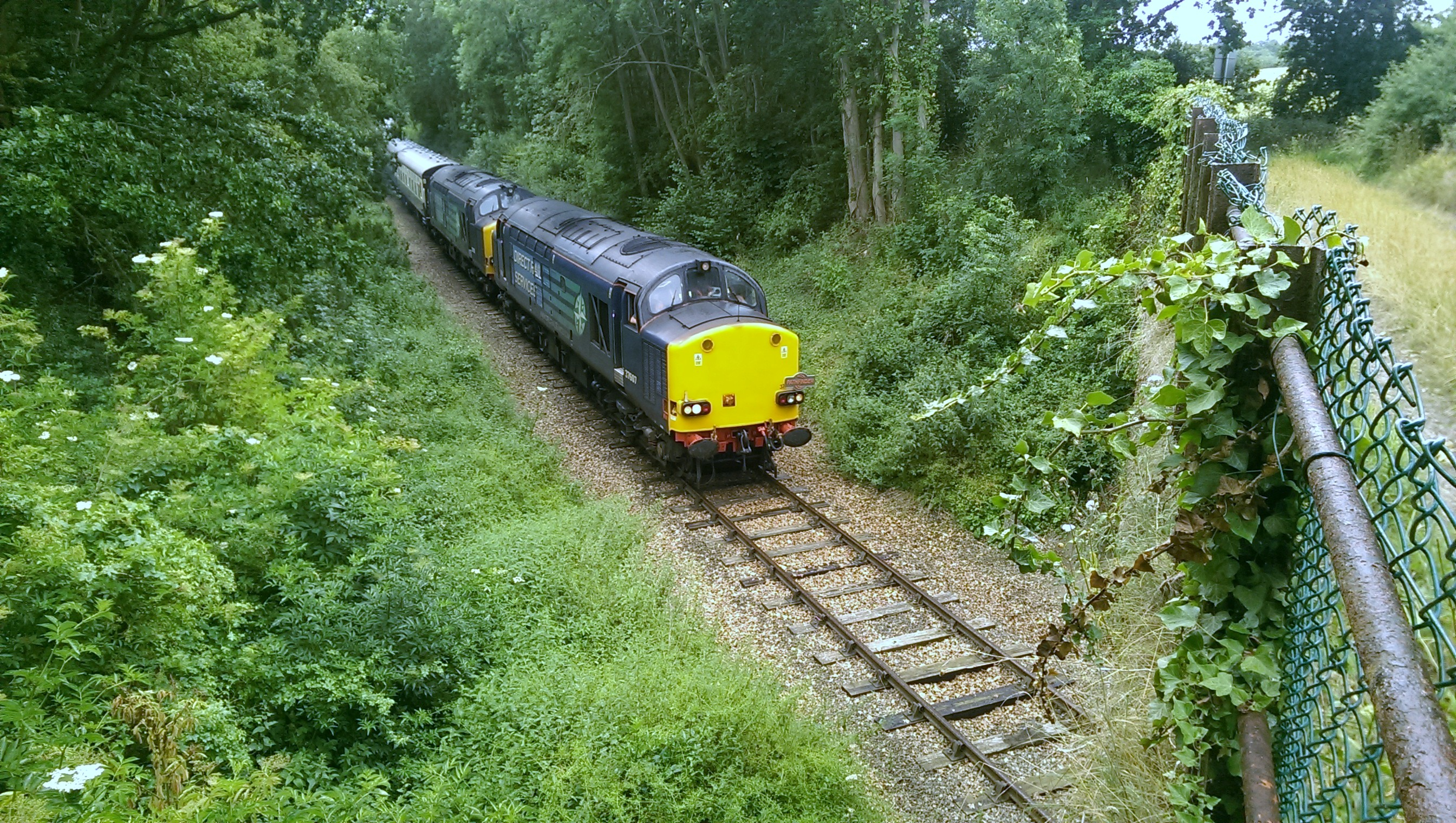 Class 37 hauled special service north of Dereham on the Mid-Norfolk Railway